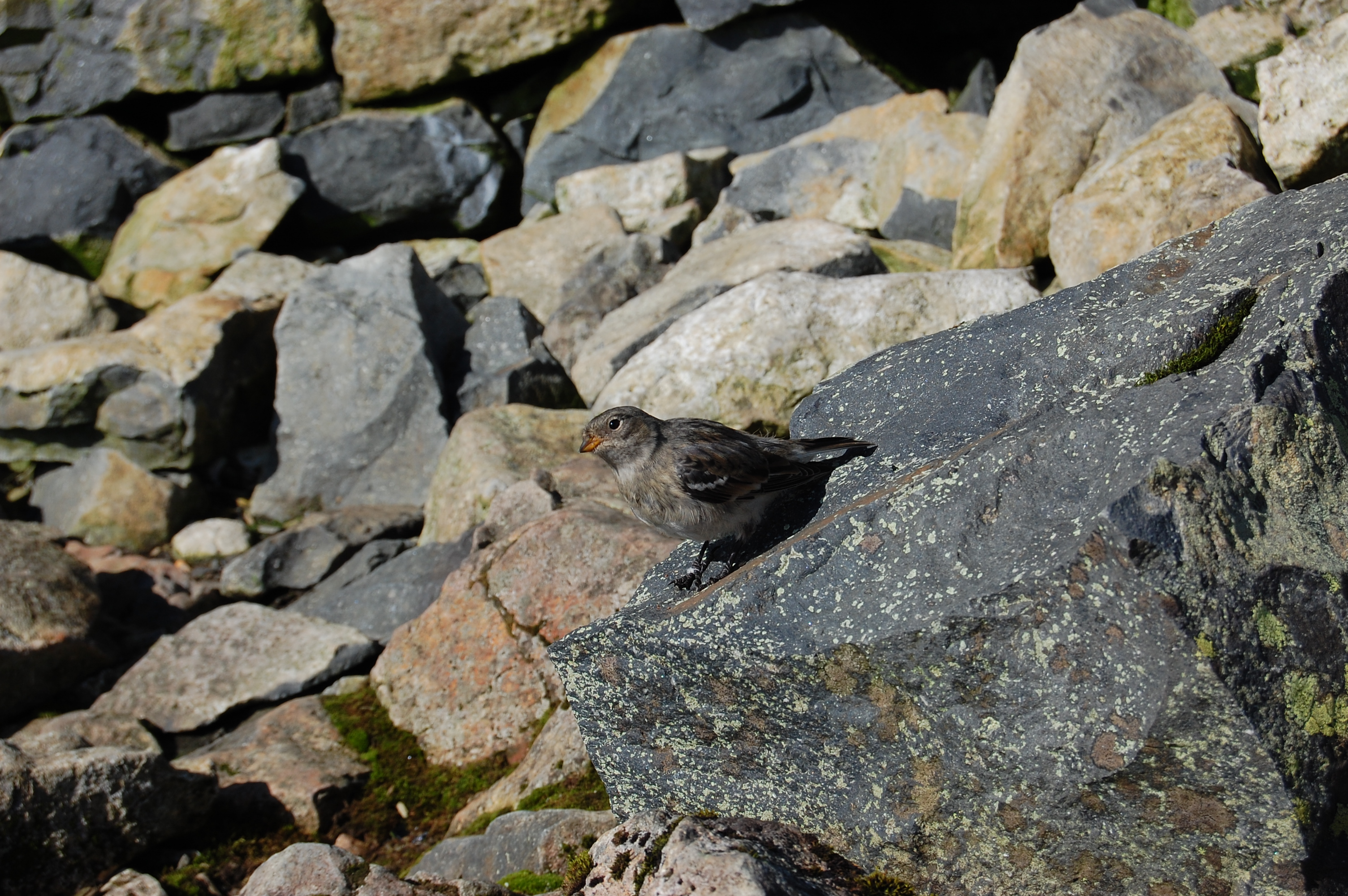 A Snow Bunting perching on rocky ground on Ben Nevis, Scotland.